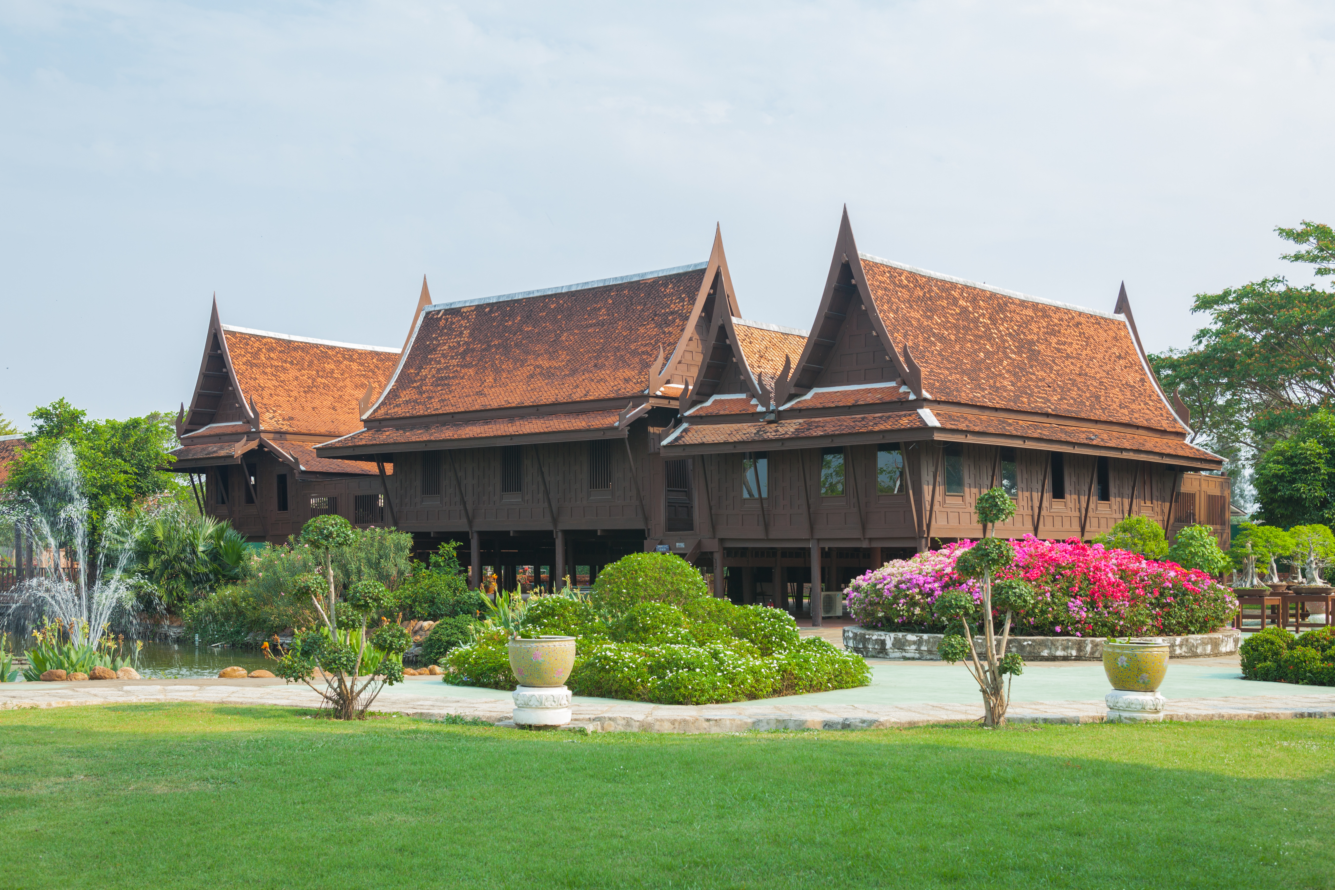 Ruen Moo Thai in Ancient City (Mueang Boran), Samut Prakan Province.